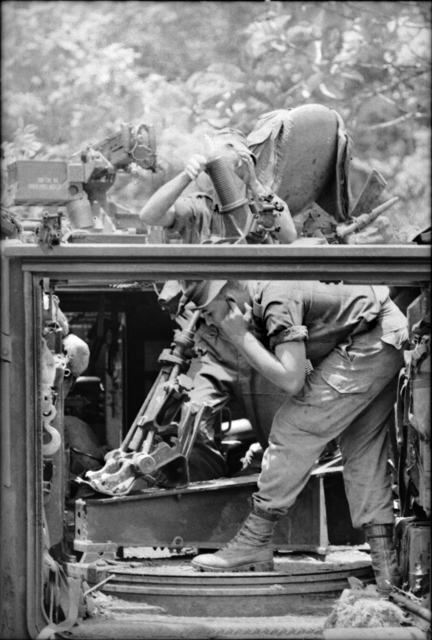 AWM Caption: Long Tan, Vietnam. 1966-08-19. Troops of the 6th Battalion, The Royal Australian Regiment (6RAR), on a sweep in the area fire an APC mounted mortar during Operation Smithfield.